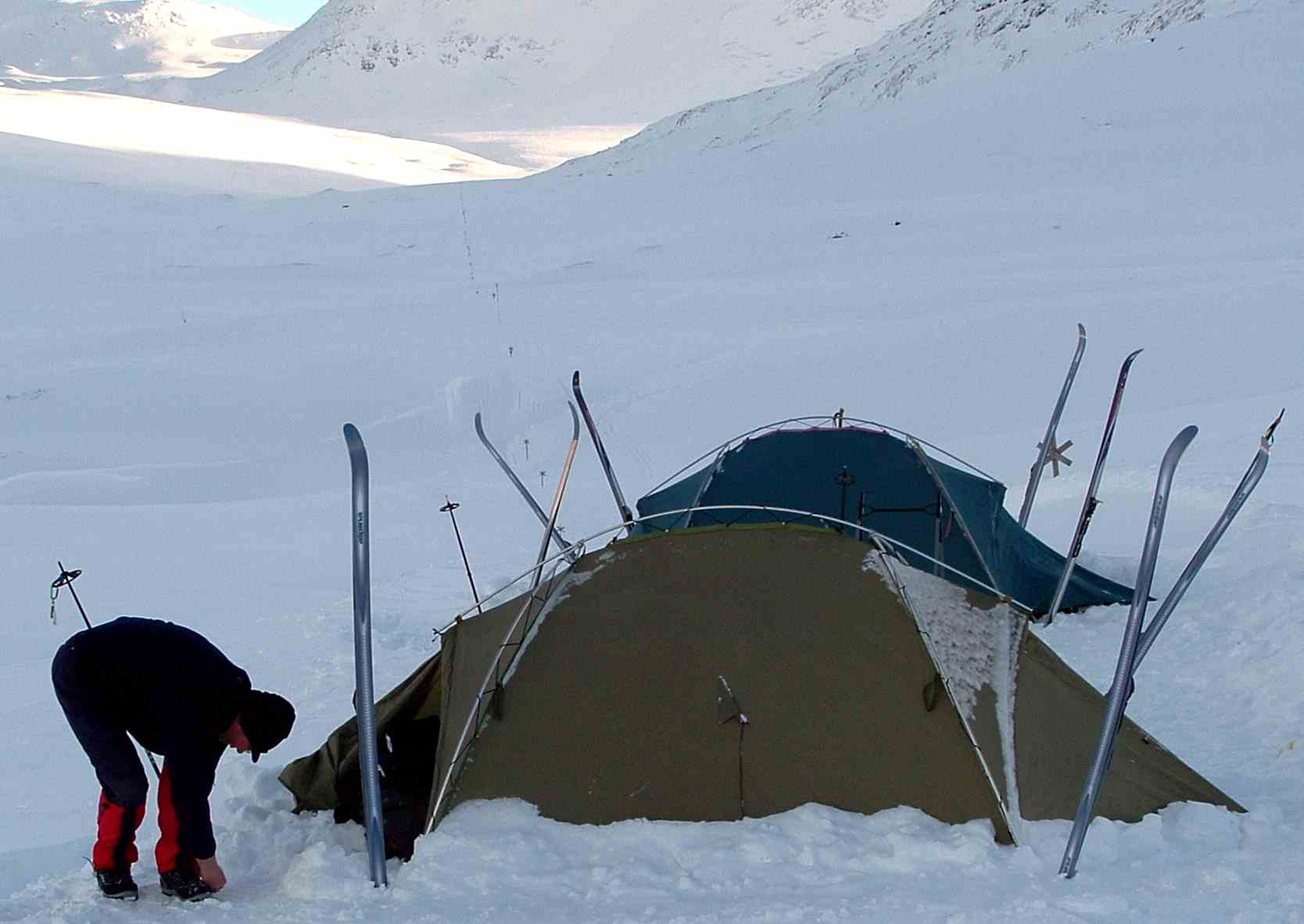 A quiet, cold morning along the Kungsleden in Swedish Lapland. Two small tents secured with skis and walking sticks. Marcel van der Veen is adjusting his gaiters. Date: march, 2005 Author: Hans de Laat